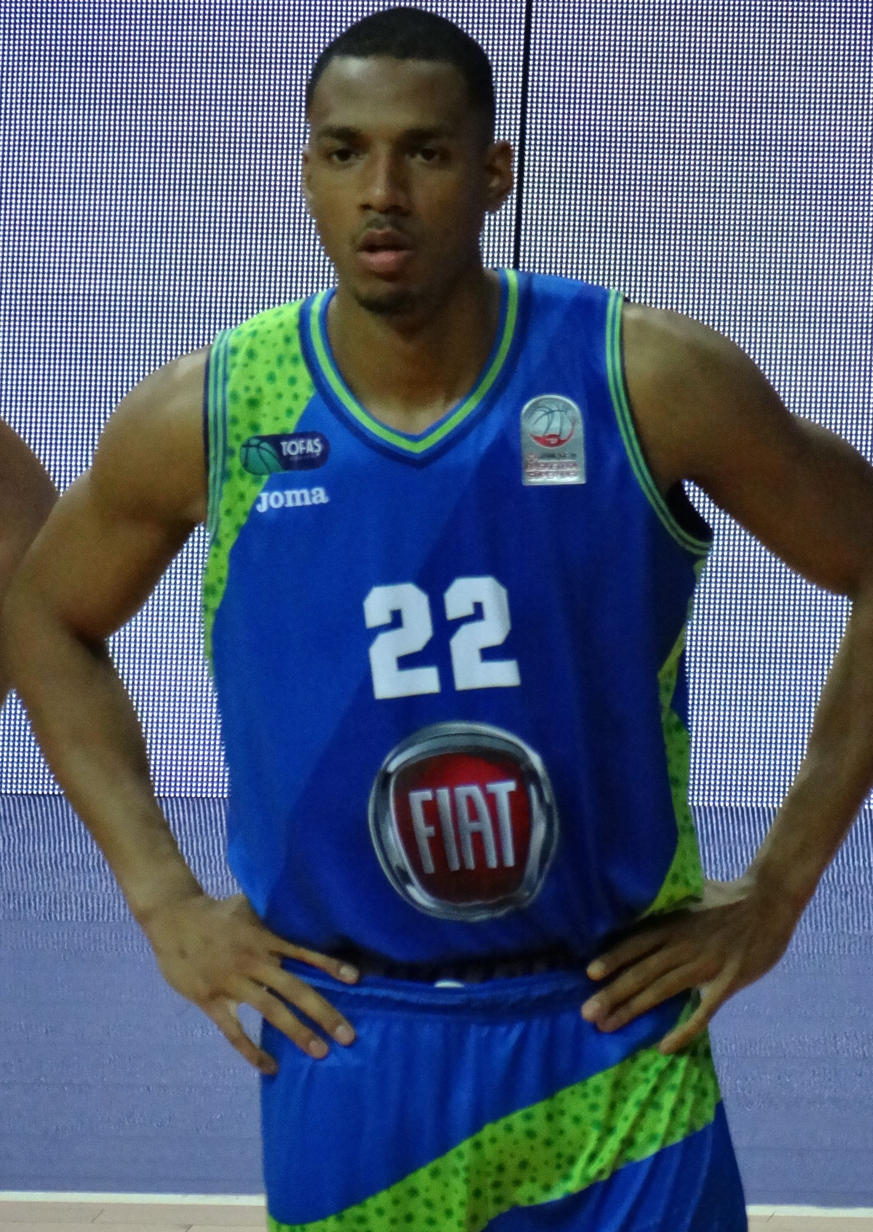 Josh Owens 22 Tofaş SK 20180502